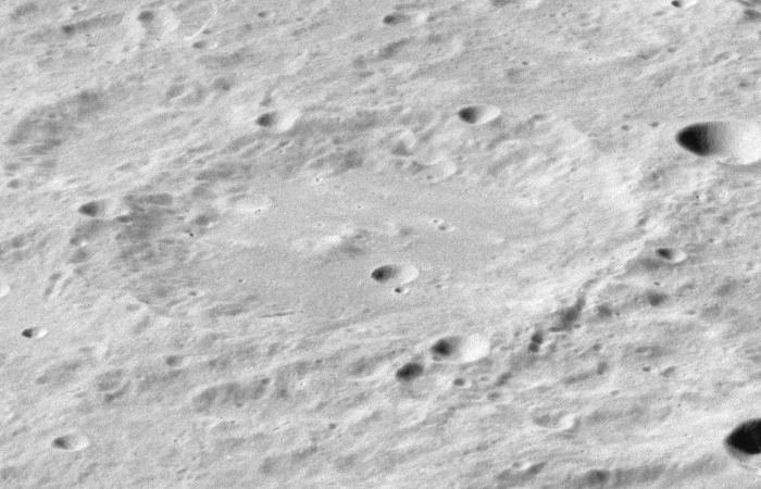 Oblique view of Vestine, on the far side of the moon. North is in upper right.